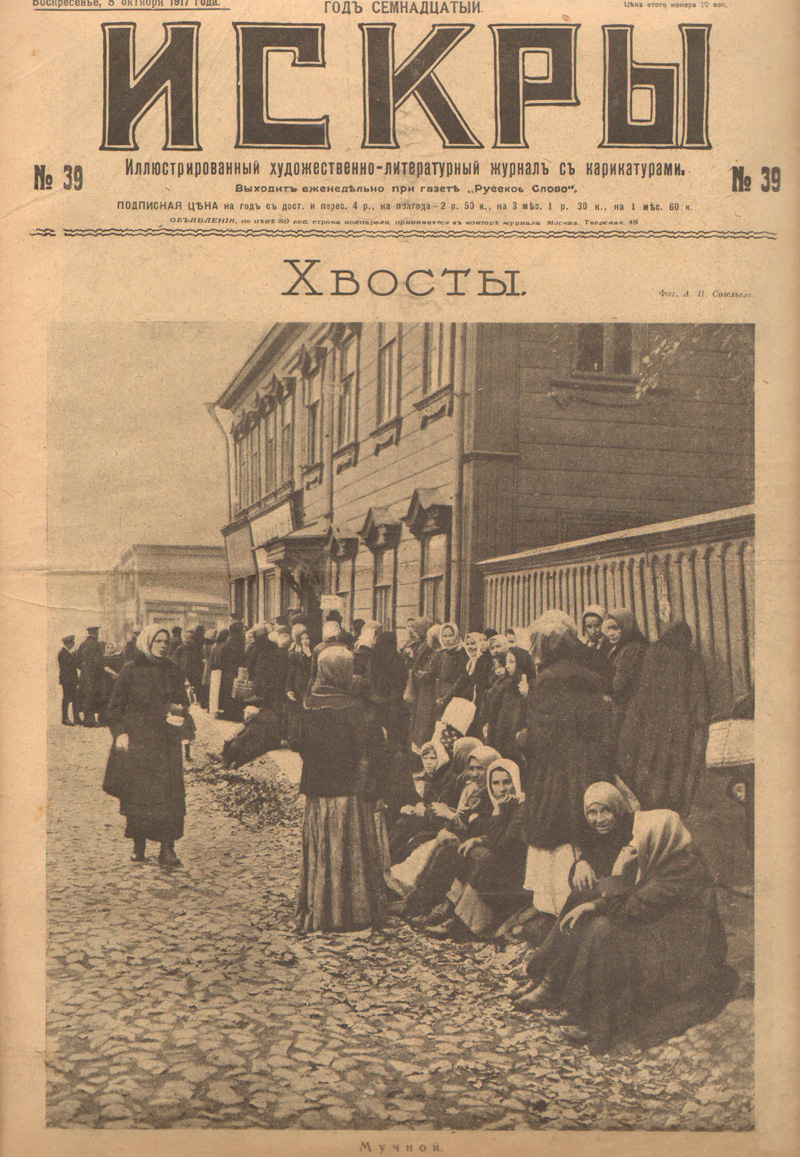 Queues (Khvosty). Photo by A. I. Savelyev. 1917